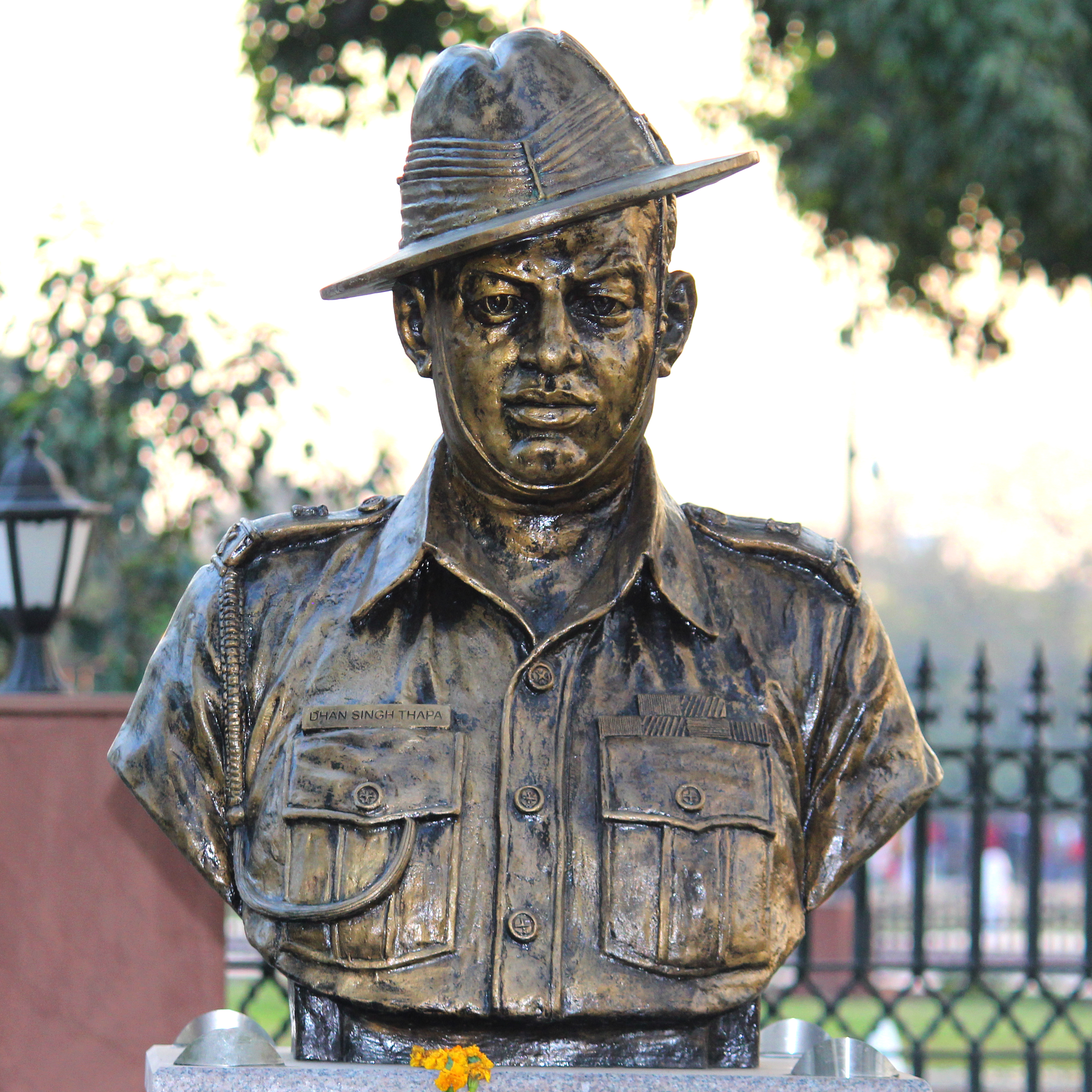 Major Dhan Singh Thapa's statue at Param Yodha Sthal (section for Param Vir Chakra recipients), National War Memorial, New Delhi.